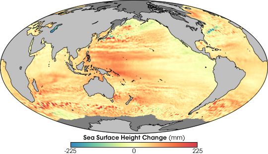 This image shows regional patterns of sea level change, as observed by Topex and Jason 1 satellites during the period 1993-2007.